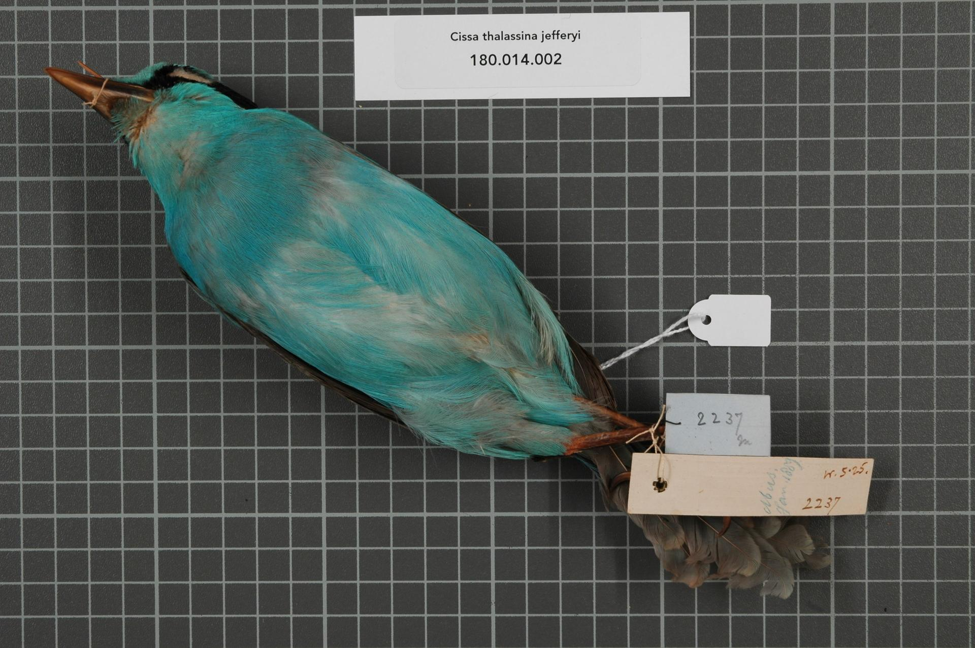 Cissa thalassina jefferyi Sharpe, 1888